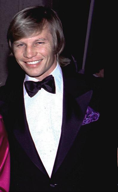 Michael York at the Filmex Tribute to Elizabeth Taylor.